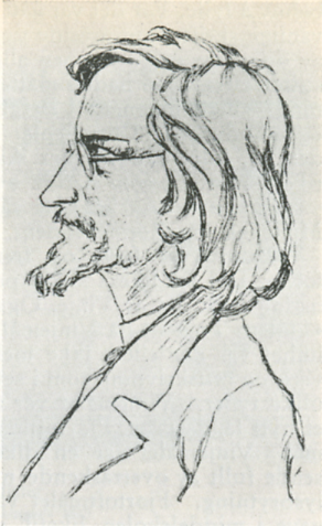 Drawing of Olaus Fjørtoft by Mathias Skeibrok (1851–96)